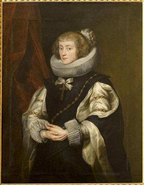 formerly entitled Mary of Barbançon portrait, perhaps Clara-Eugenia van Arschot (1611-1660)